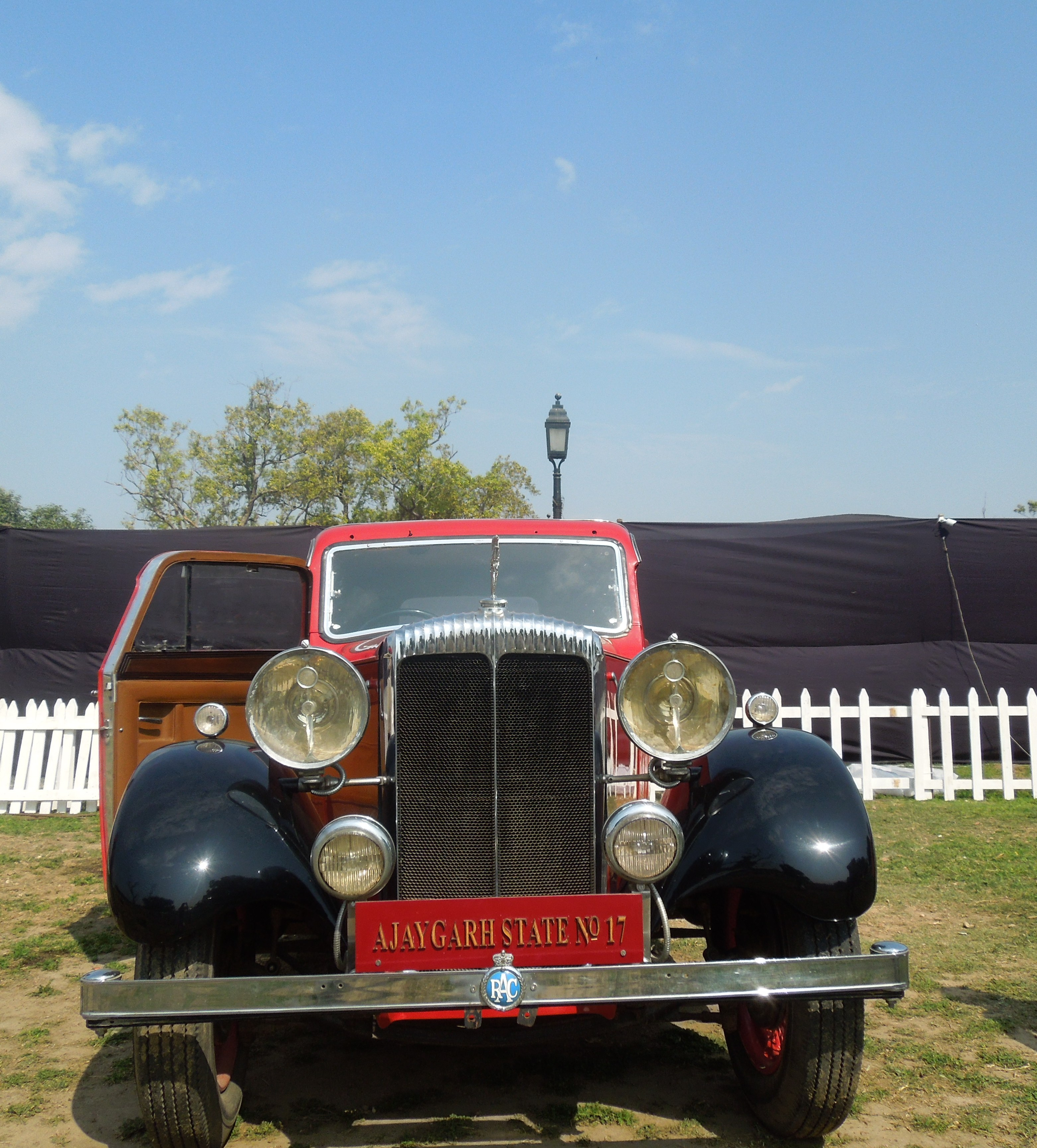 Ajaigarh State was one of the princely states of India during the period of the British Raj. The state was founded in 1785 and its capital was located in Ajaigarh, Madhya Pradesh. Ajaigarh's last ruler signed the accession to the Indian Union on 1 January 1950.